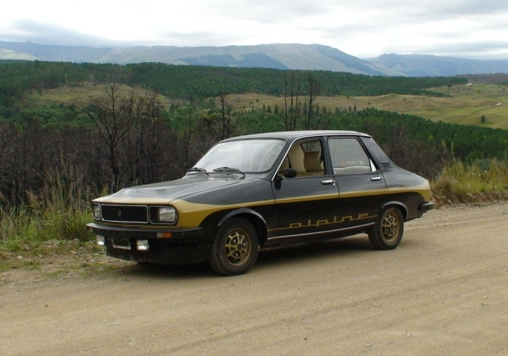 Argentinian-made Renault 12 Alpine in the hills of Córdoba, Argentina. Photo taken by uploader during early 2007. Pictured car is a standard 1978 model.